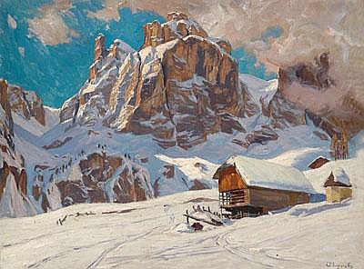 Winter in the Hochgebirge